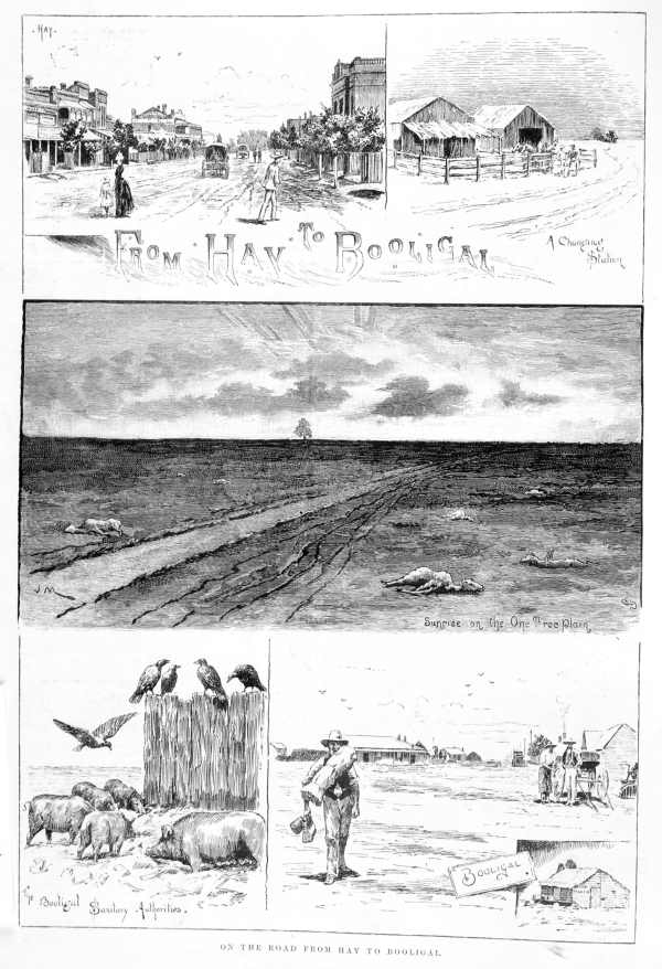 ON THE ROAD FROM HAY TO BOOLIGAL [N.S.W.] - RECENT DROUGHT IN NEW SOUTH WALES-From sketches by our special artist. Wood engraving published in The Illustrated Australian news. The image consists of five panels: Hay -- A changing station -- Sunrise on the one tree plain -- The Booligal sanitary authorities -- Booligal.